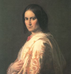 Painting of Elisabeth Otter-Knoll (1818 -1900) by Jozef Israëls (1824-1911), undated (Elisabeth Otter-Knoll Stichting).